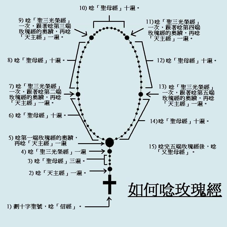 How to Recite Roasry in Chinese